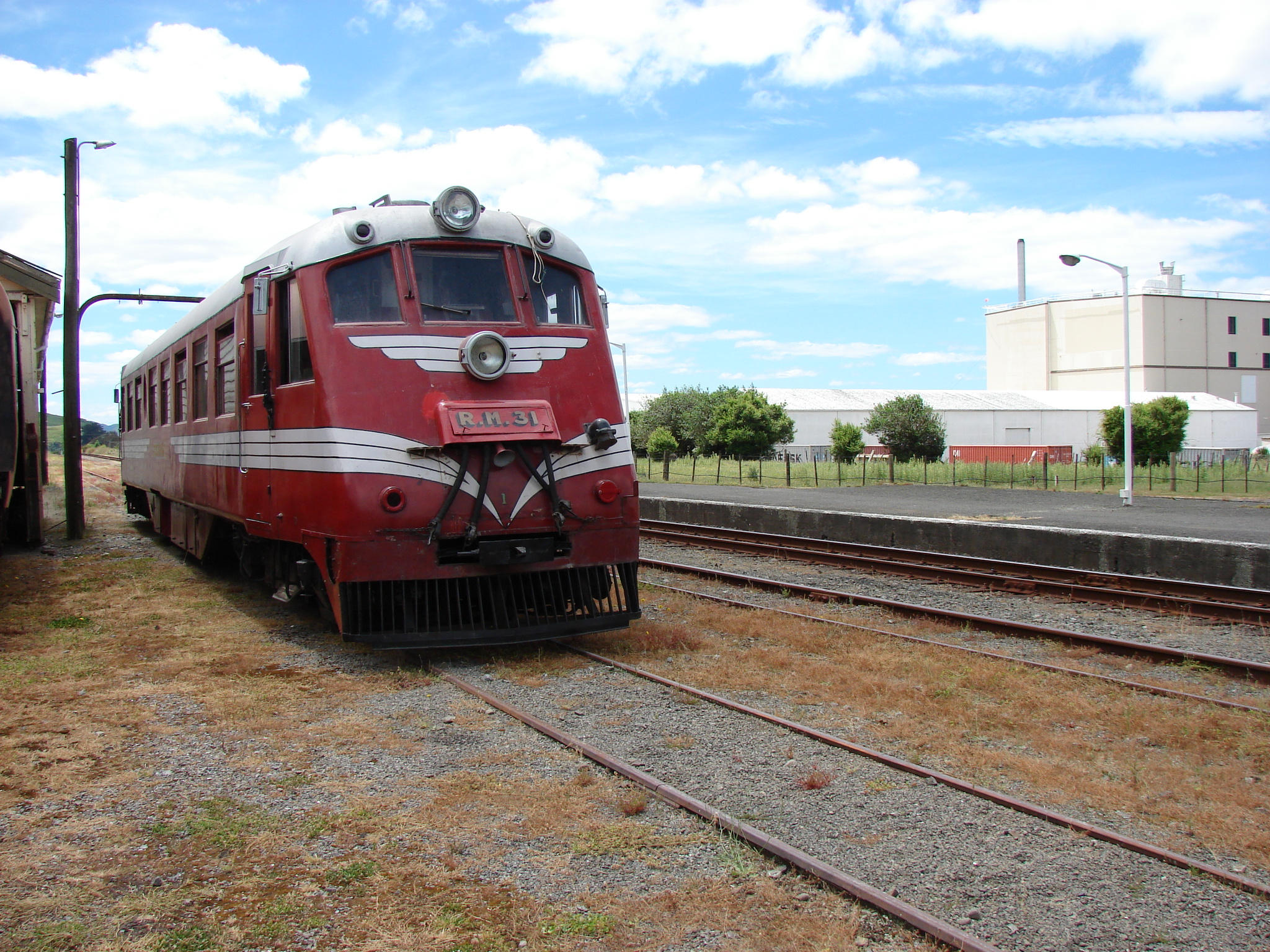 RM 31 (Tokomaru) going for a run through the Pahiatua station yard. Photographed by Matthew25187 on 2007-12-16.